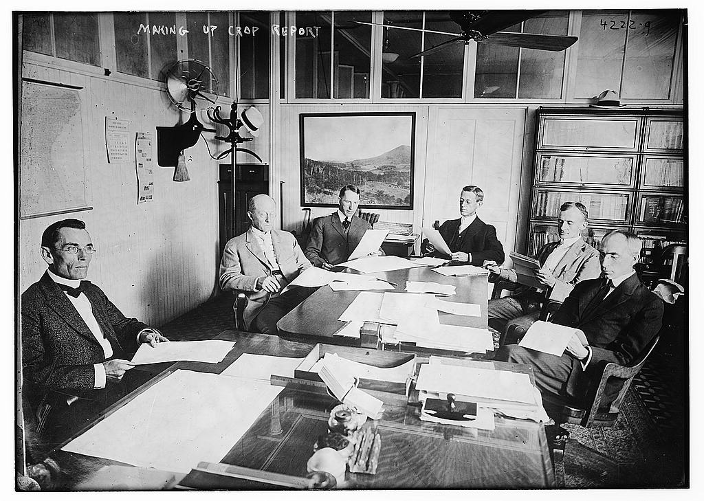 Making up the crop report in 1917